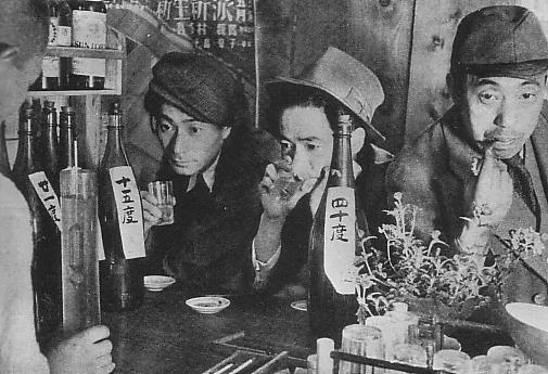 Kasutori-Sake (Japanese Moonshine)